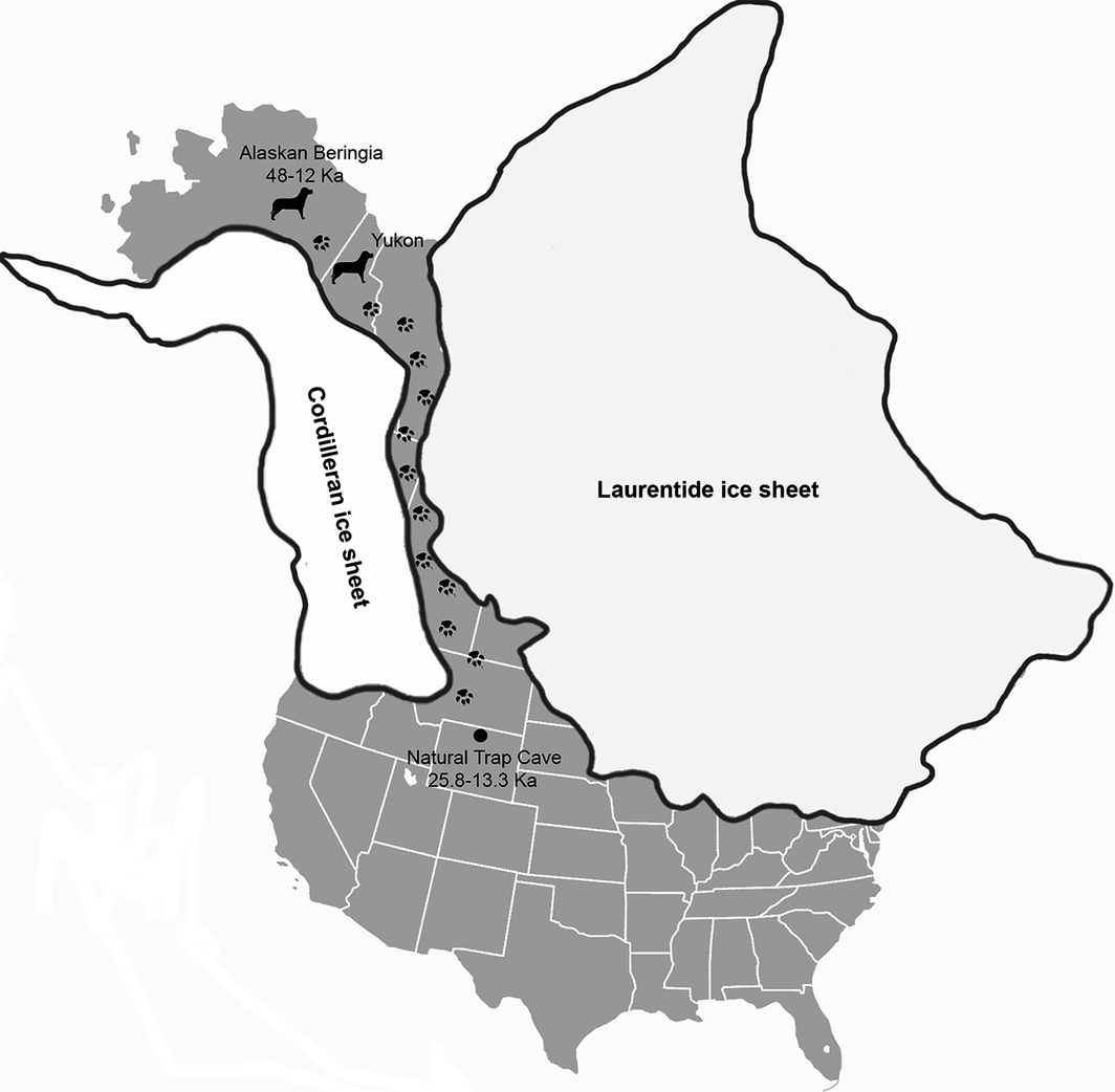 Map of North America with Pleistocene glaciers and the assumed path of Beringian wolves from Alaska to NTC. Dog icons represent sites where Beringian wolves have previously been found and paw prints represent the hypothesized path of the Beringian wolves through the Cordilleran and Laurentide ice sheets. Natural Trap Cave is denoted with a black dot.